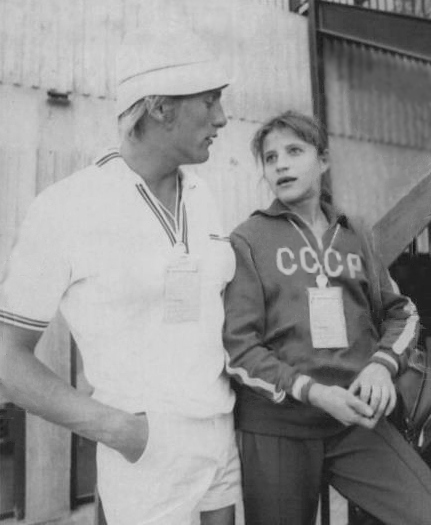 1976 Press Photo Soviet Gymnast Olga Korbut Olympics